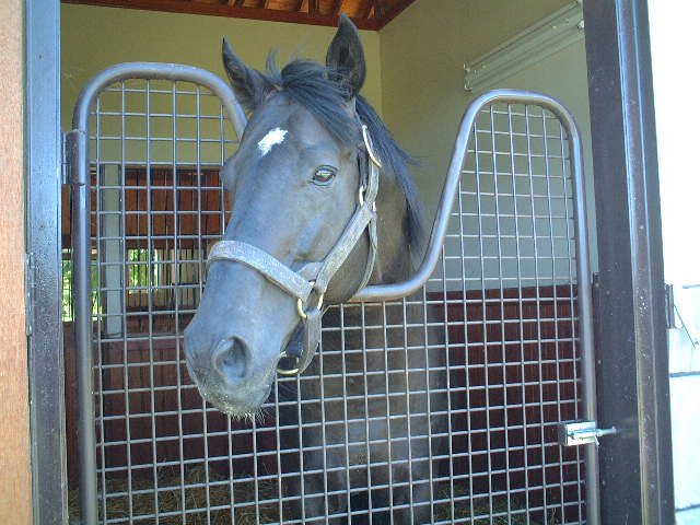 Miner Love